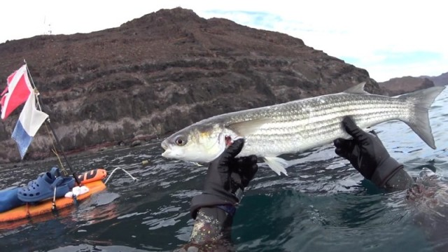 Fotograma de vídeo de captura de una lisa